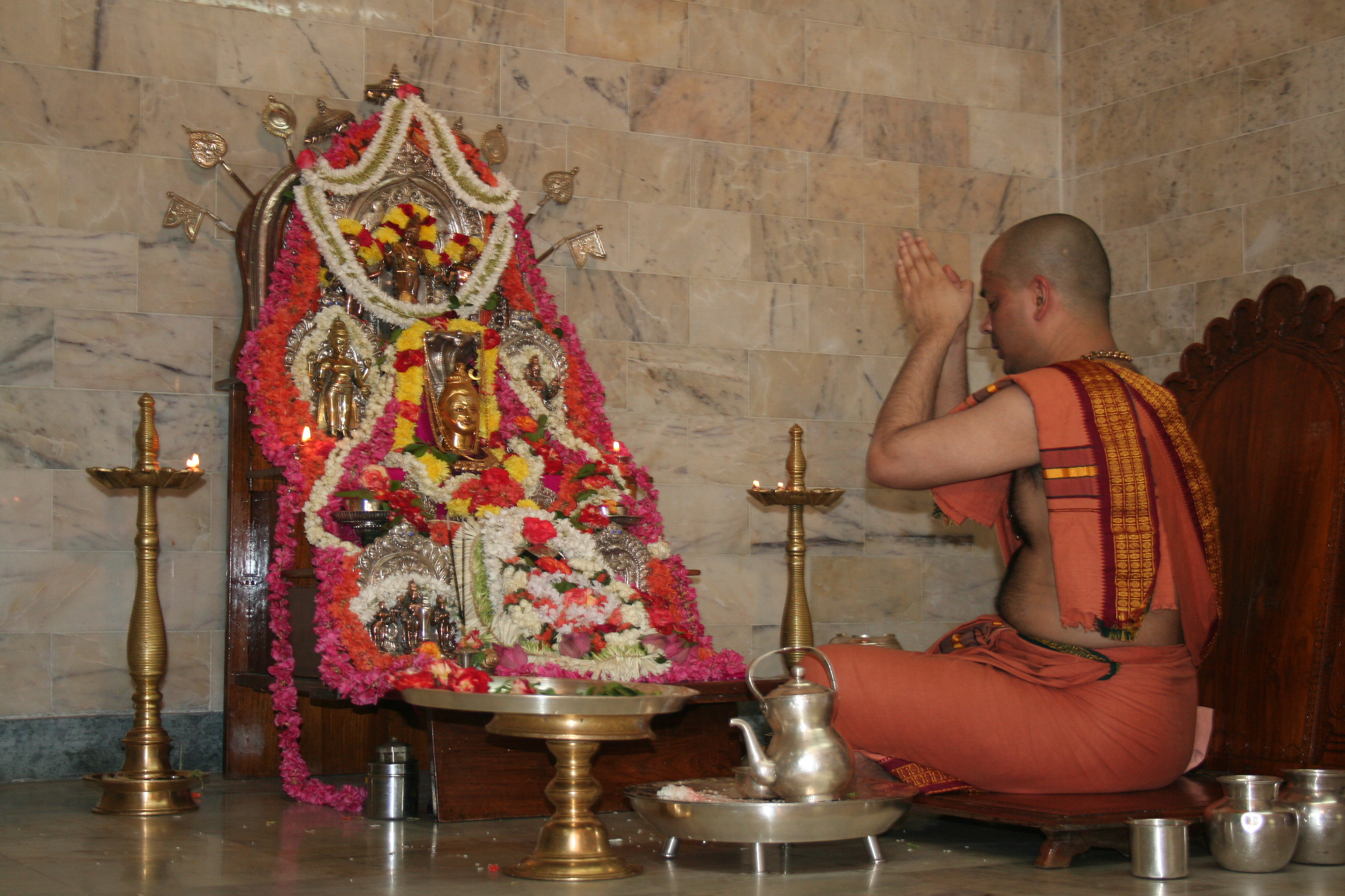 Shri Shivananda Saraswati Swamiji doing Puja.